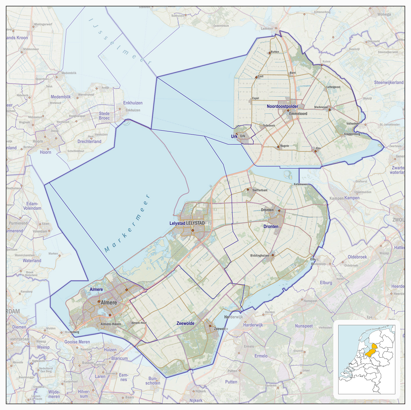 Map of the Dutch Safety Region, with an impression of the terrain and the municipal borders as of 1-1-2017.